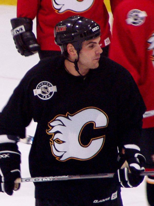 Eric Nystrom at the Calgary Flames prospect camp, September 11, 2005.